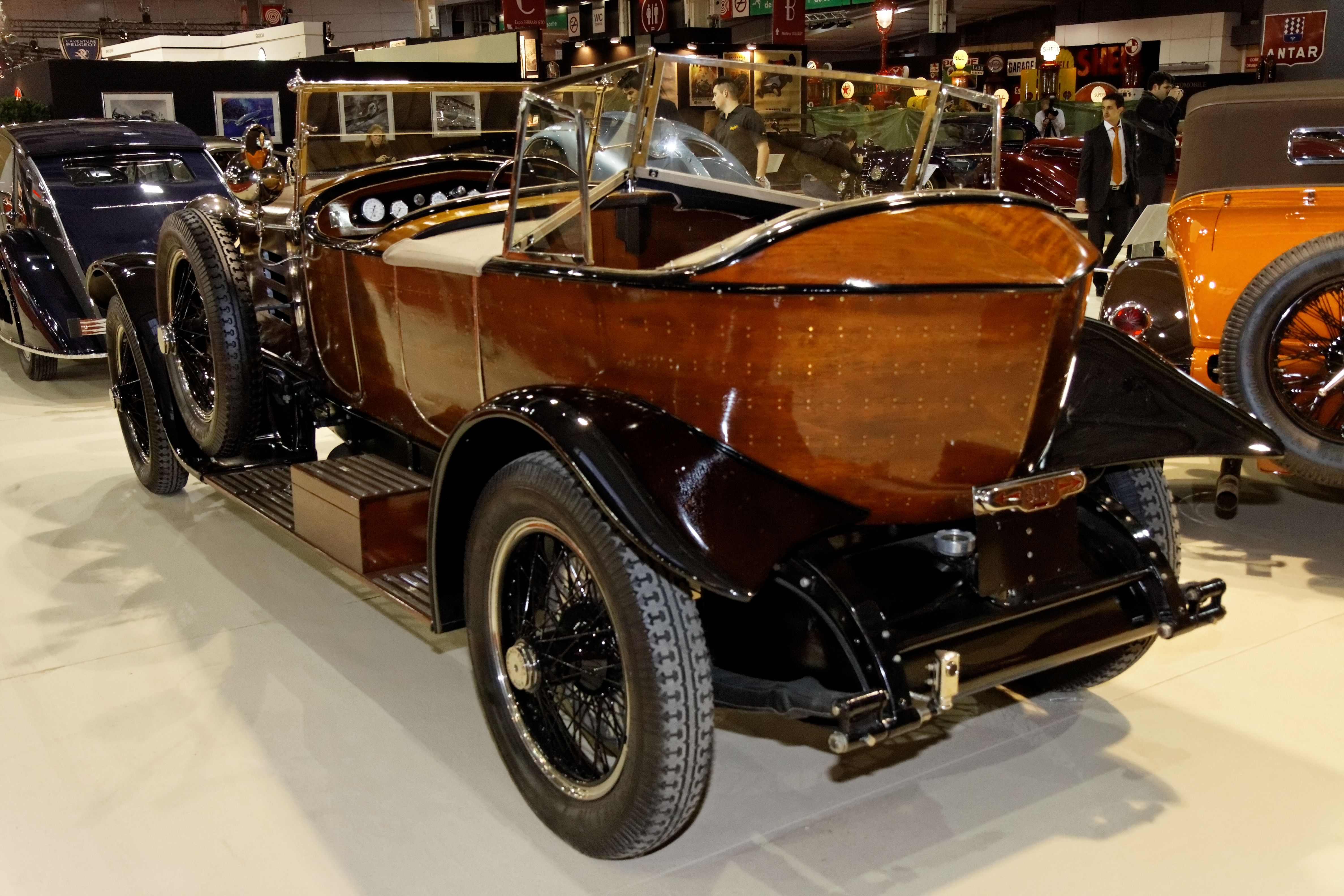 Hispano-Suiza type H6 B